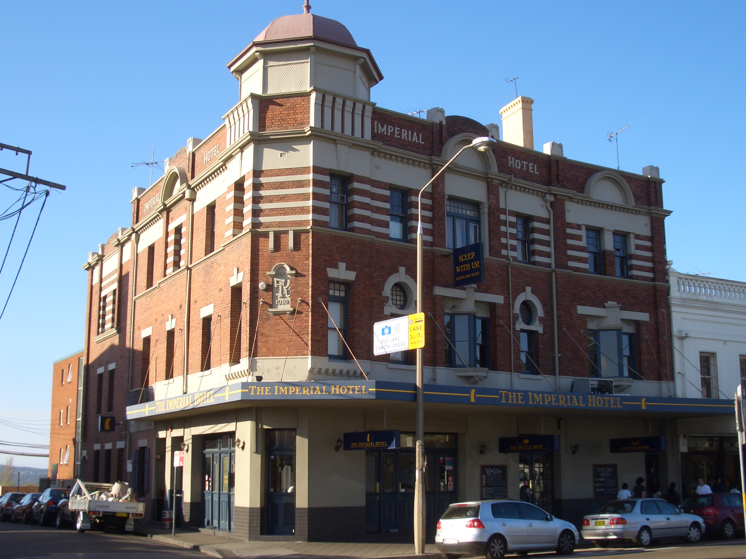 Imperial_Hotel, Oxford Street, Paddington, Sydney